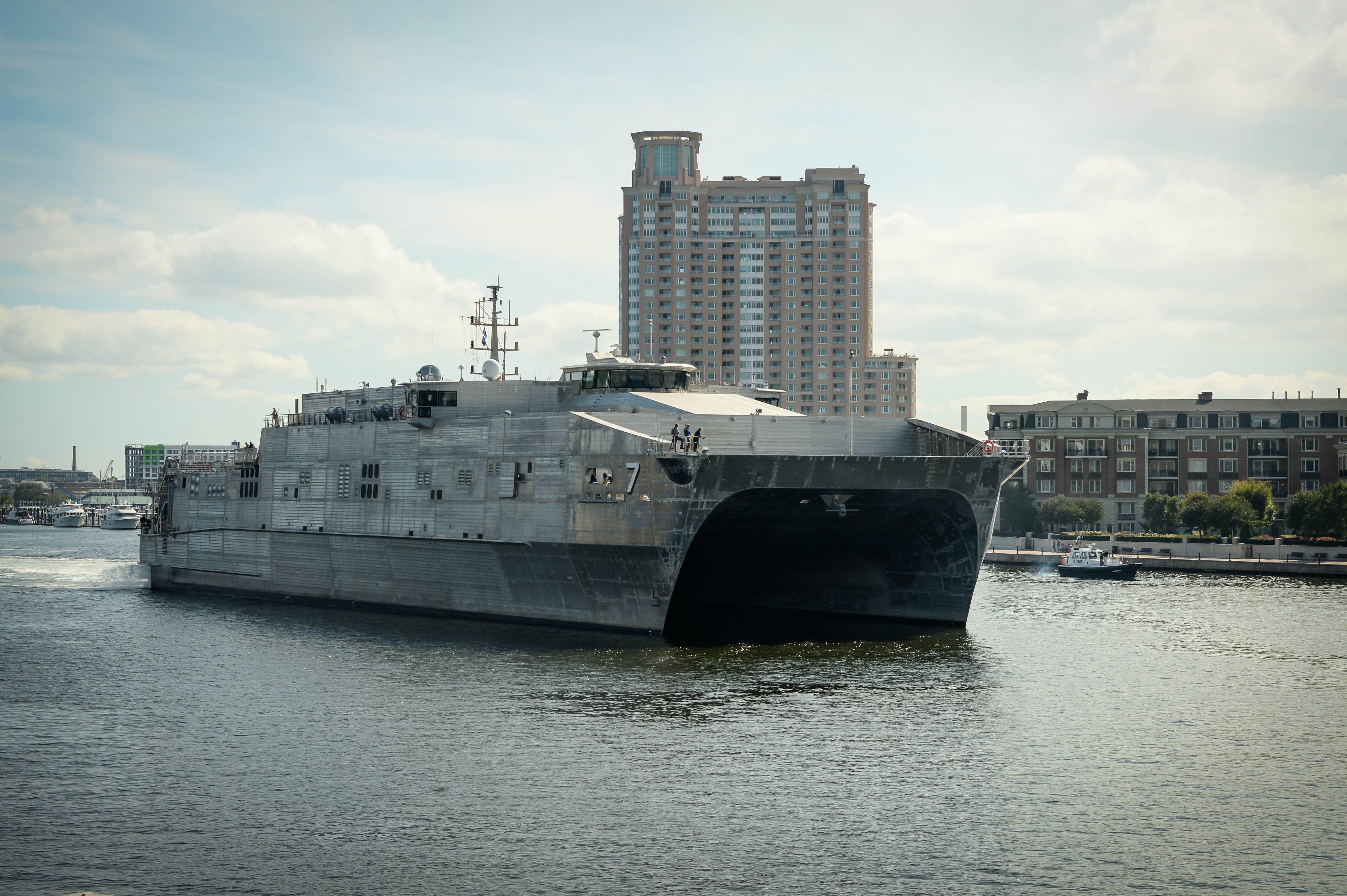 The U.S. Military Sealift Command expeditionary fast transport ship USNS Carson City (T-EPF-7) arrives at Inner Harbor during the "Maryland Fleet Week and Air Show Baltimore" (MFW-ASB) at Baltimore, Maryland (USA), on 12 October 2016. MFW-ASB was developed to provide the people and media of the greater Maryland/Baltimore area an opportunity to interact with sailors and U.S. Marines, as well as see, firsthand, the latest capabilities of today's maritime services.